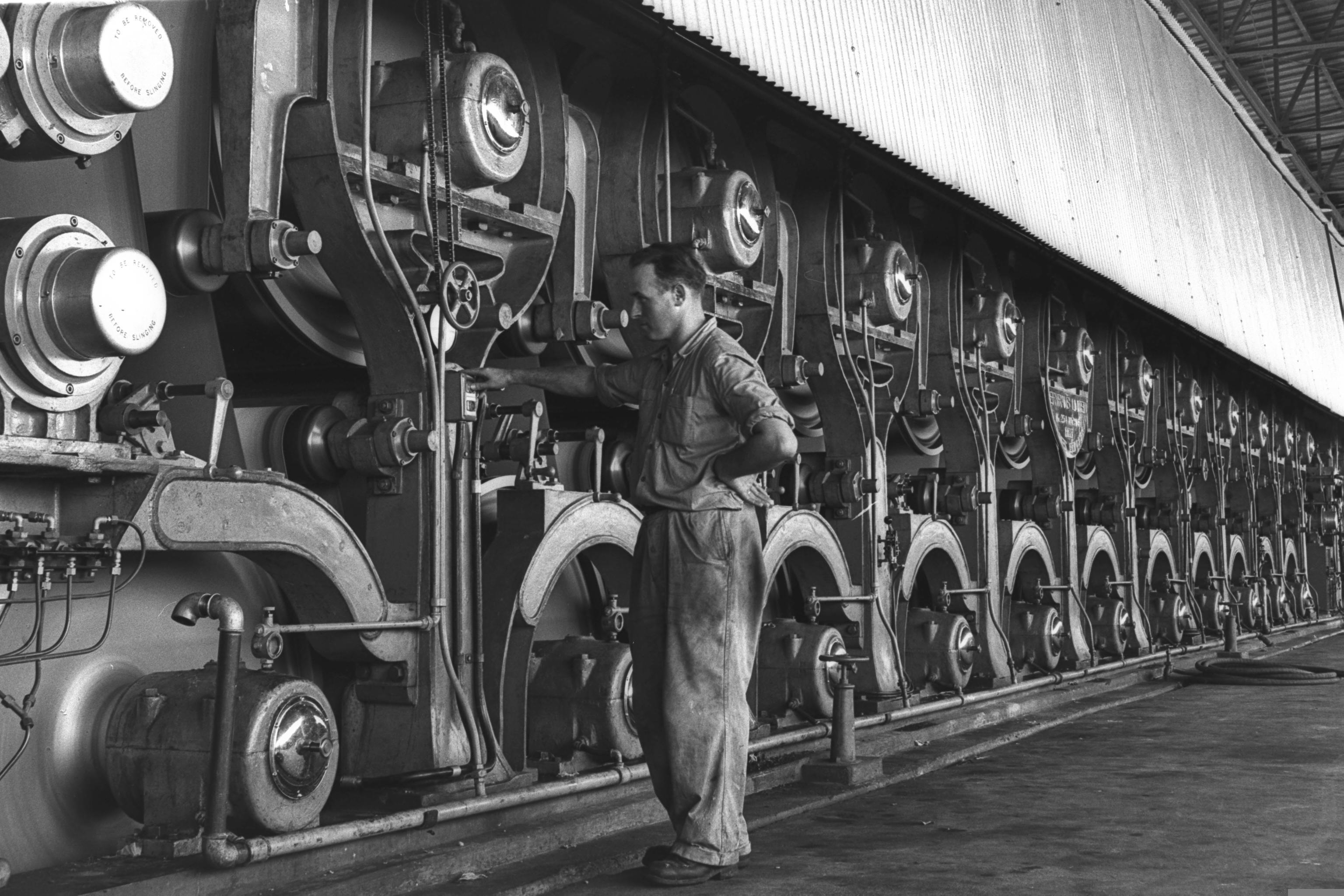 The paper making machine at the American Israeli paper mill in Hadera.